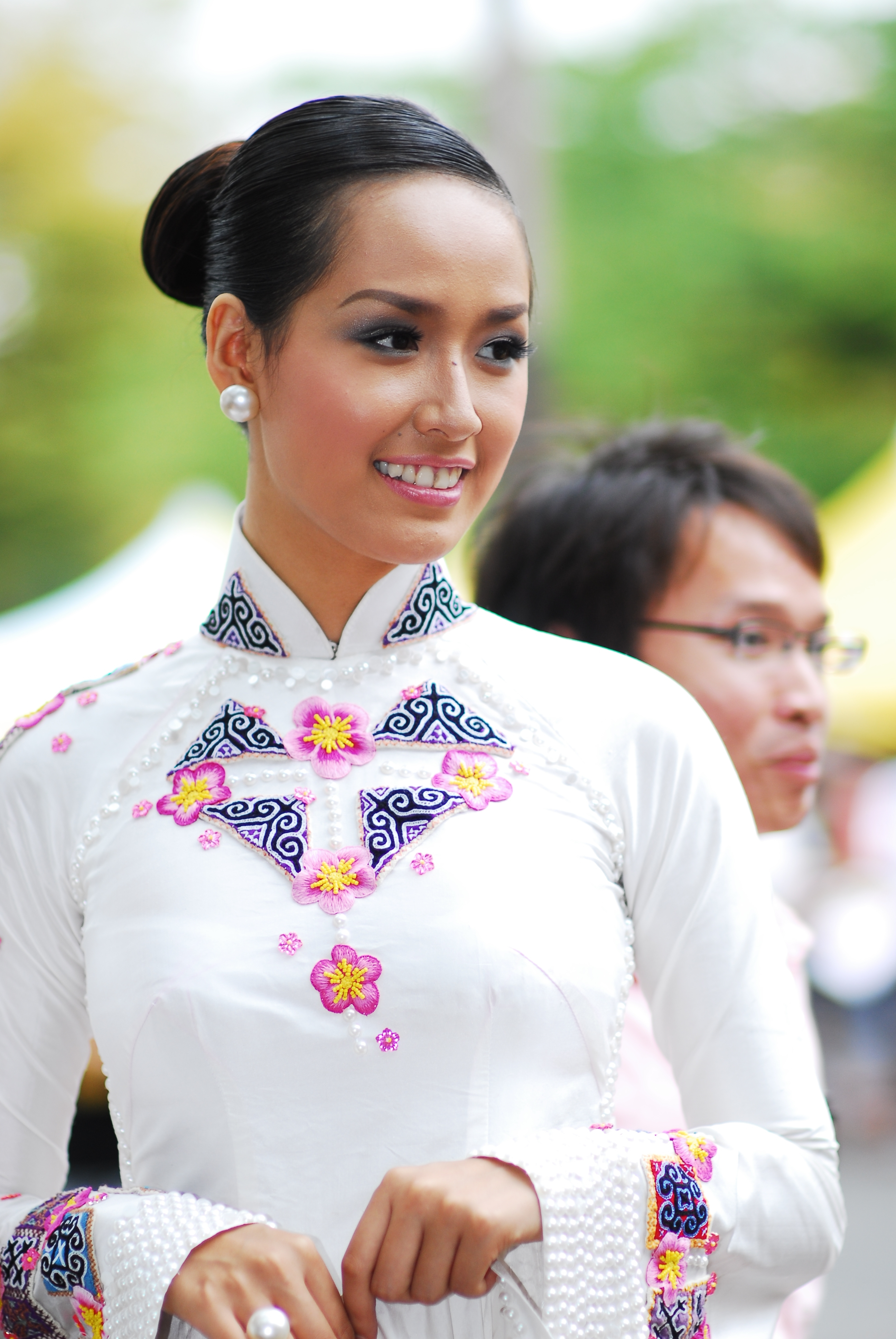 Mai Phương Thúy - Miss Vietnam 2006